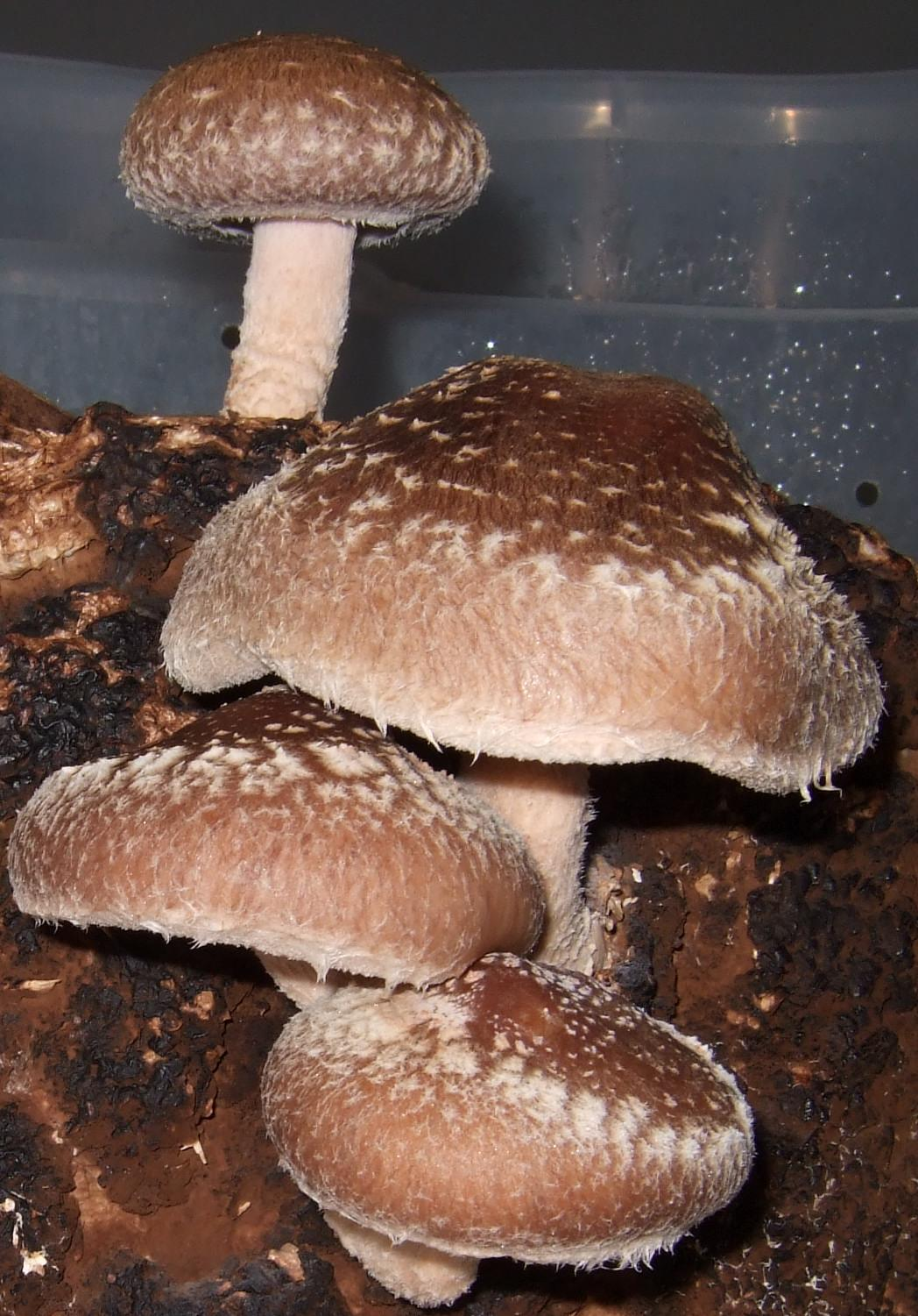 shiitake